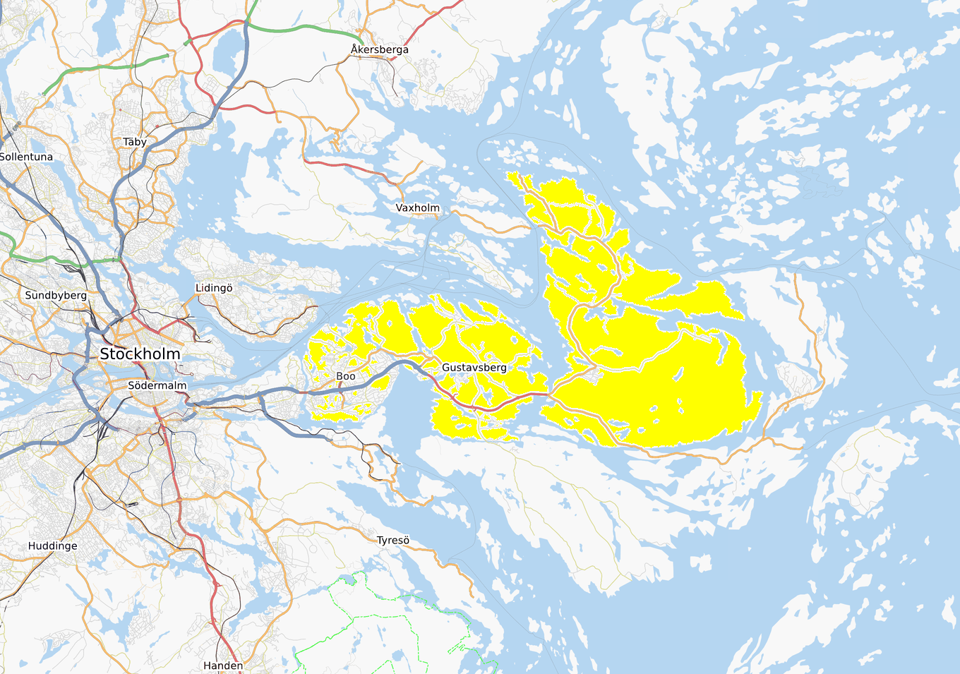 Map of the island of Värmdö (in yellow) and surroundings.